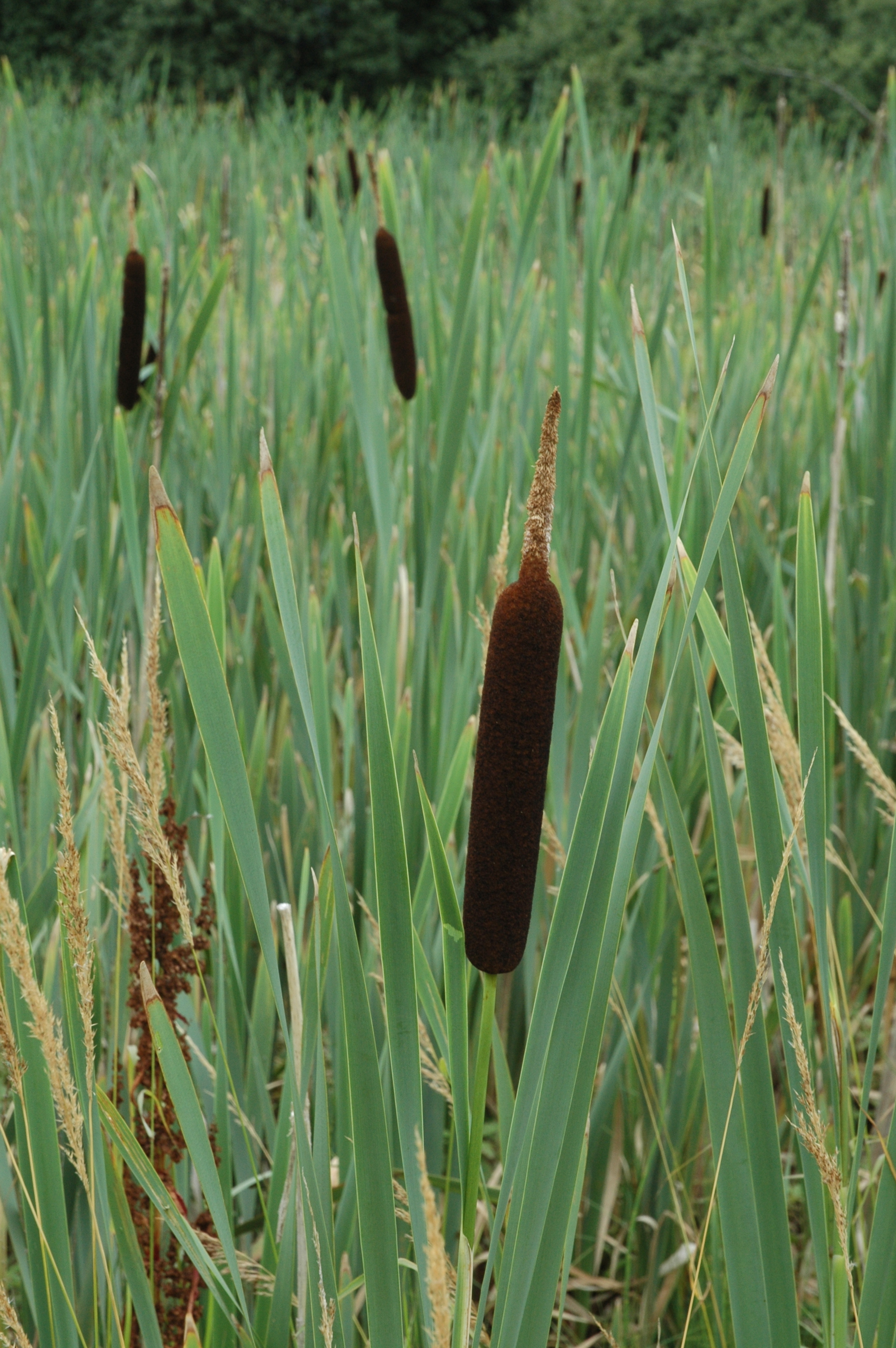 Photographed by Kjetil Lenes. Oslo, Norway